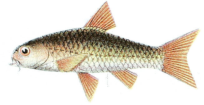 Mystacoleucus marginatus , identified as Systomus (Barbodes) obtusirostris in the original publication